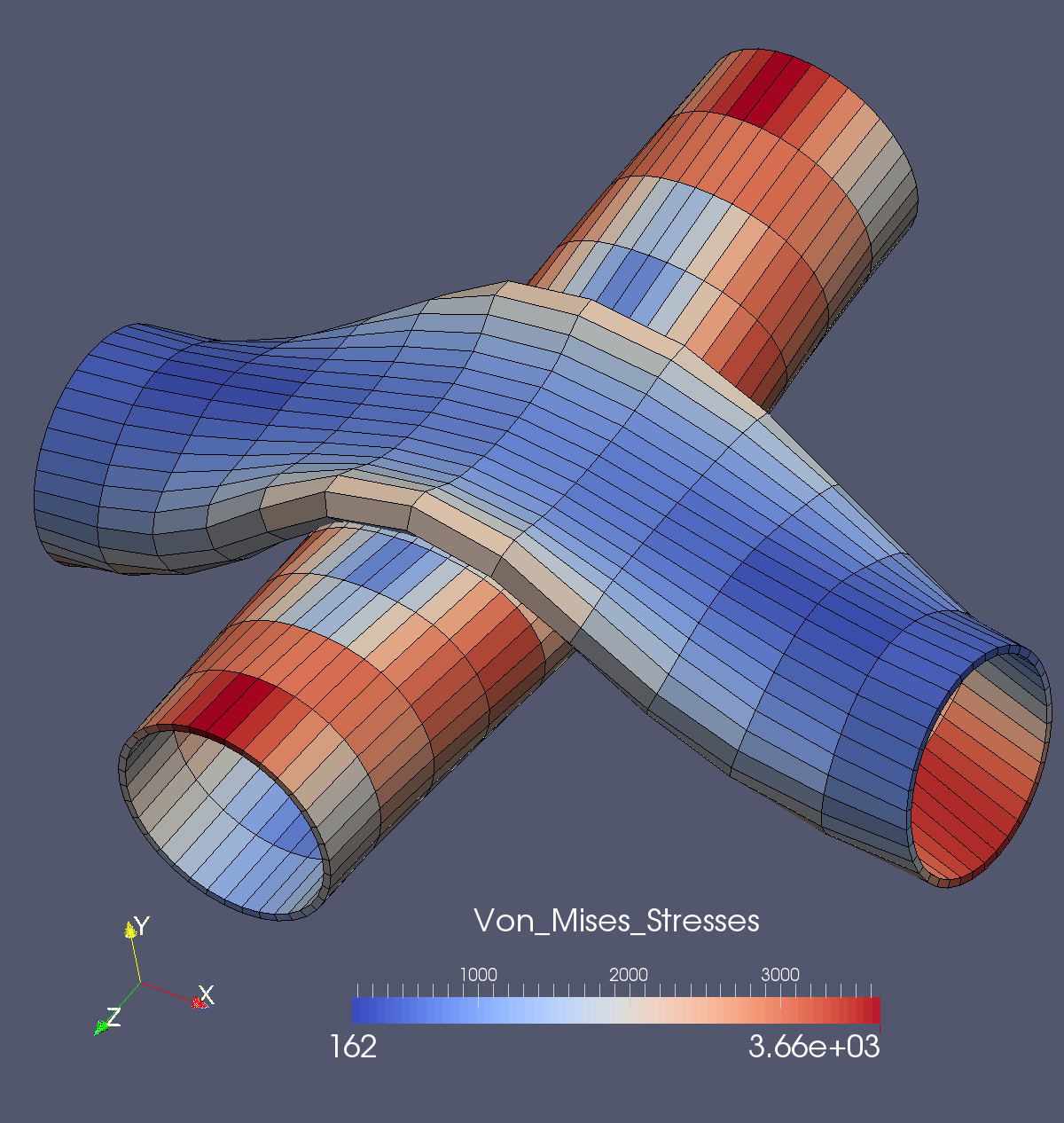 Deformed geometry and stresses of two crossed tubes in contact, calculated with GetFEM++.